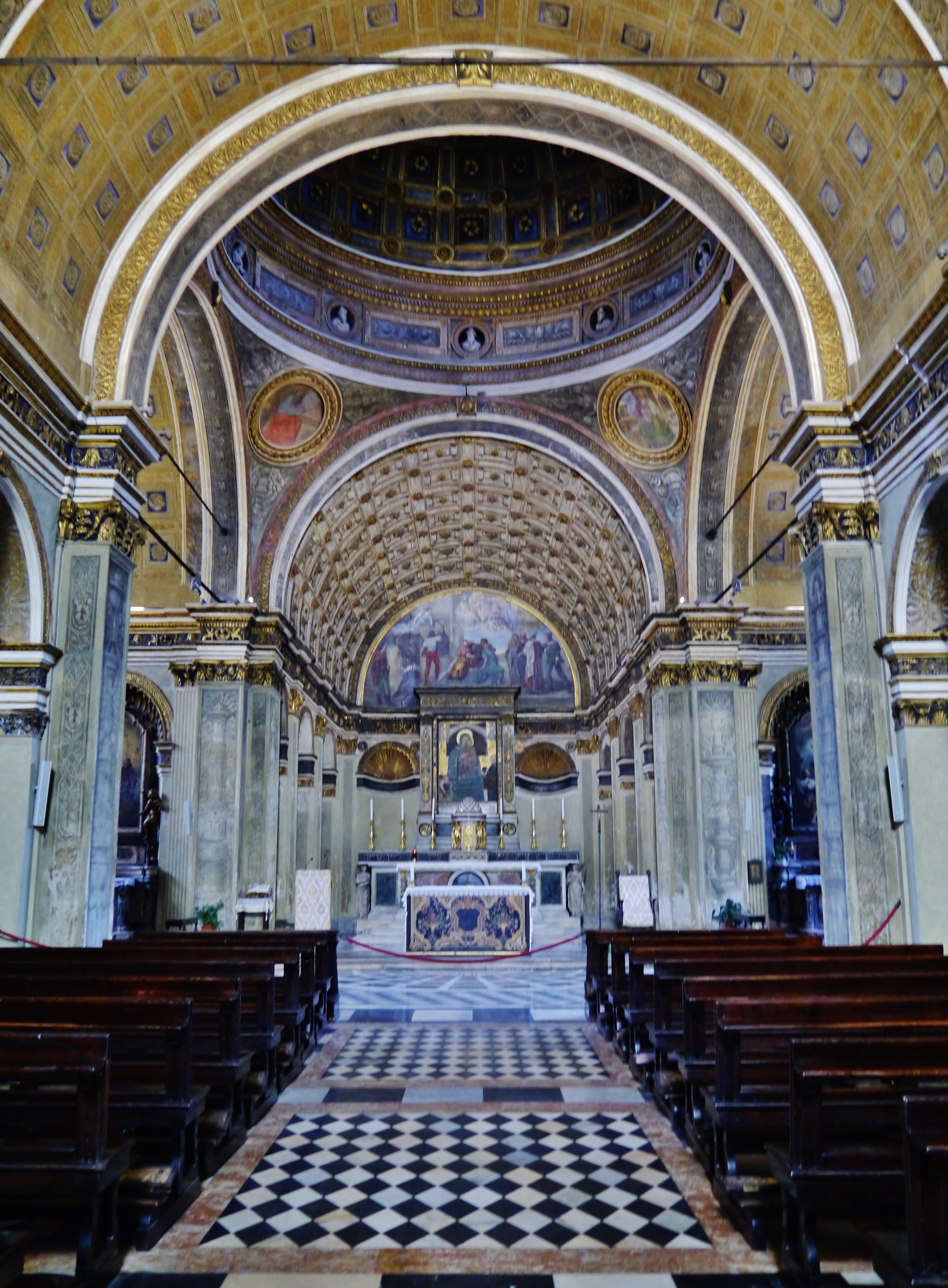 Nave of the Church of St. Mary near St. Satyrus, Milan, Province of Milan, Region of Lombardy, Italy